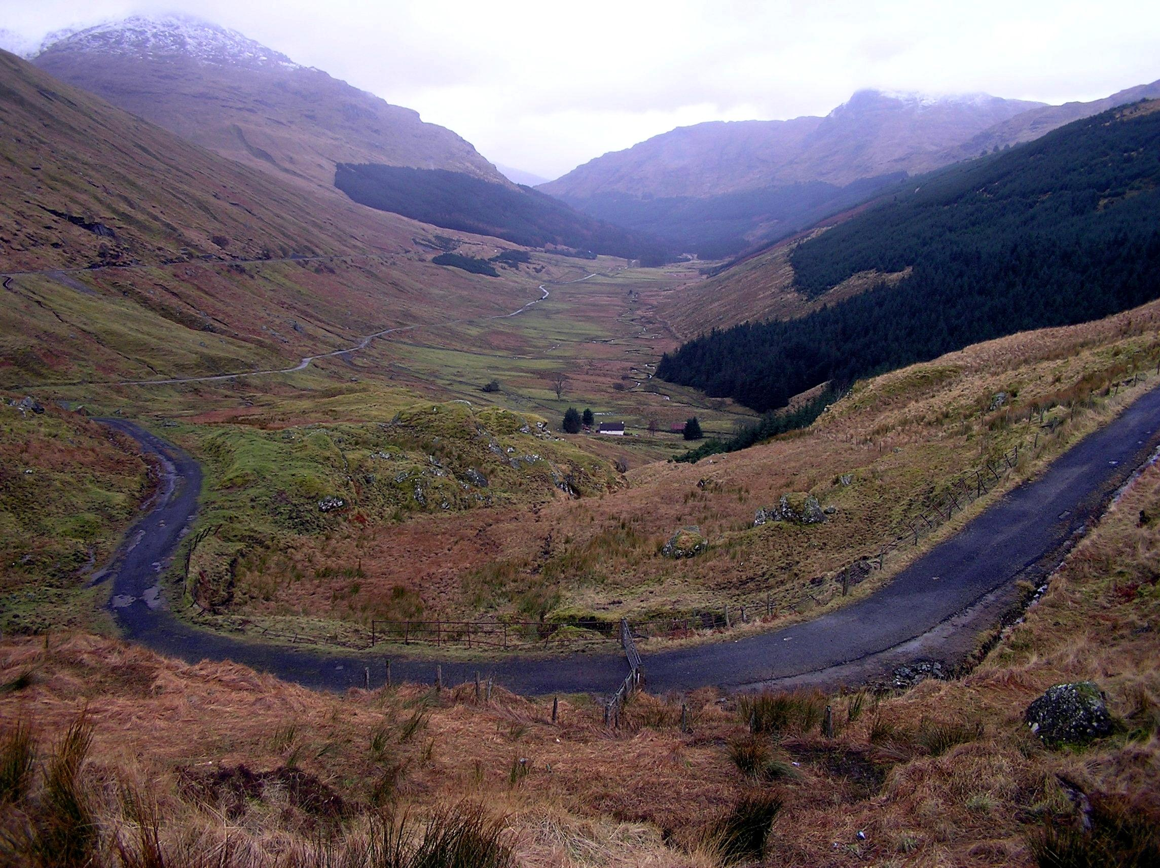 Glen Croe, Scotland. Viewed from 'Rest and Be Thankful' Car Park on the A83. The A83, Ardgartan to Inveraray road is seen passing along the left of the picture above the old drovers road in the valley bottom.